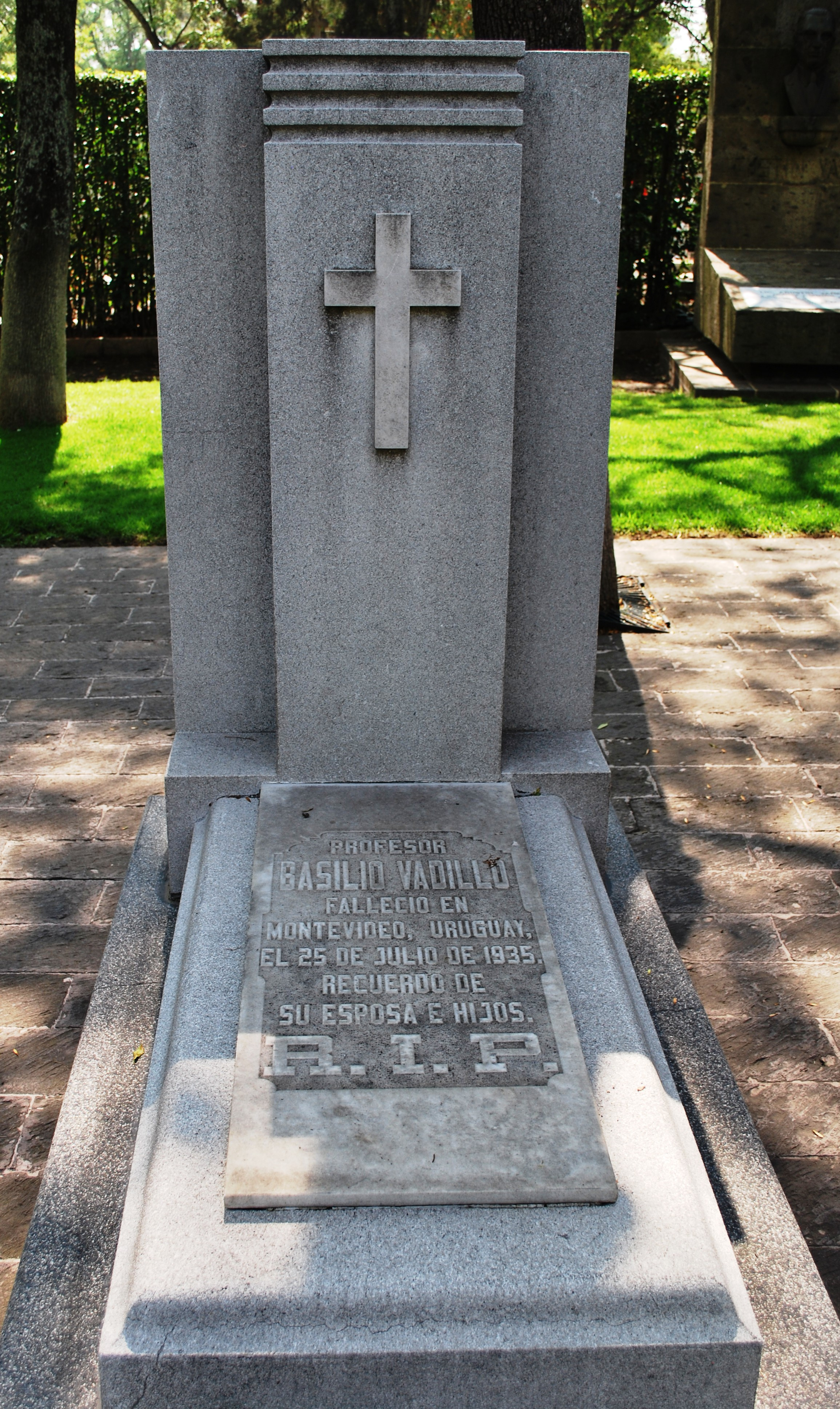 Tomb of Basilio Vadillo in the Panteon Civil de Dolores cemetery in Mexico City